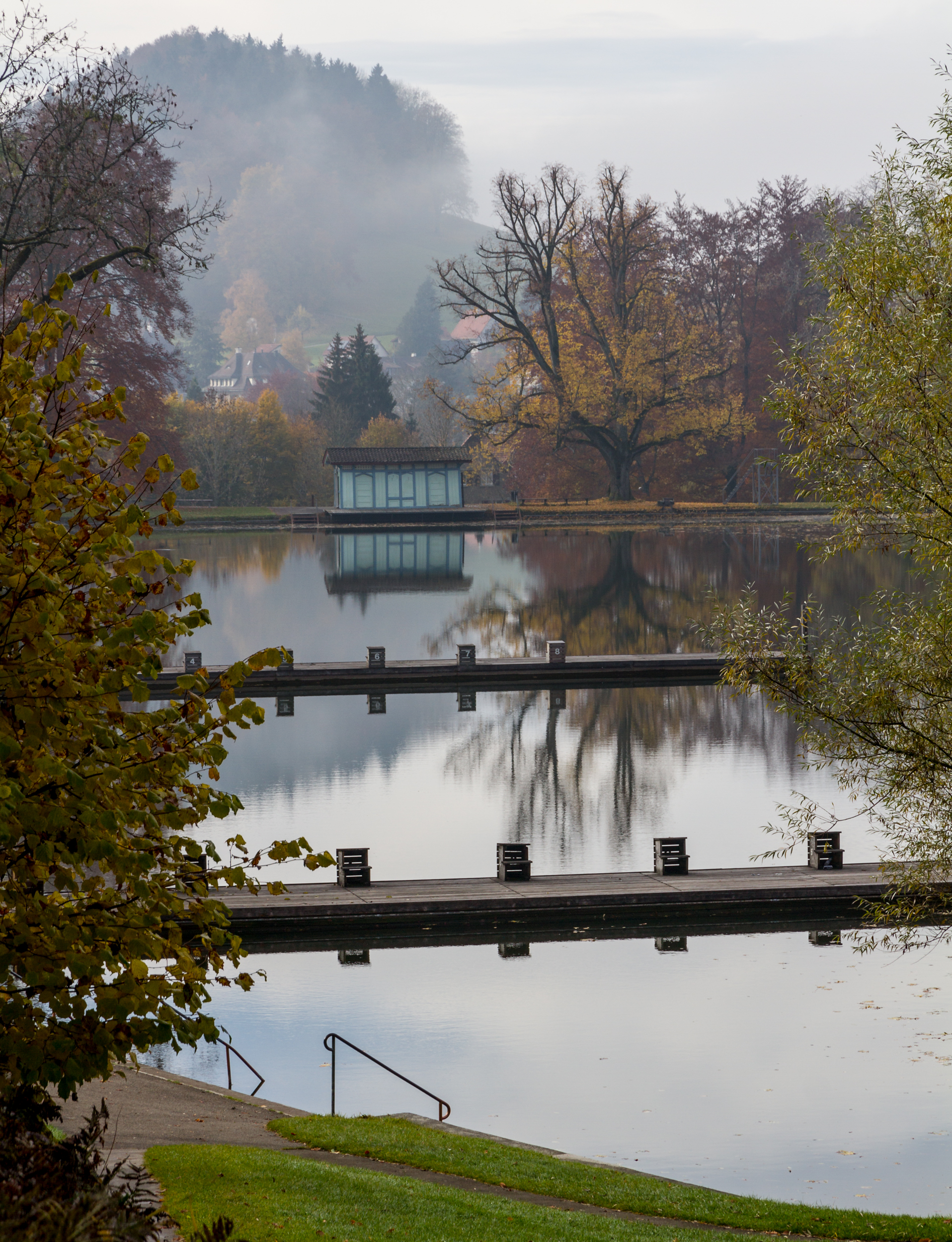 Mannenweier, with starting blocks for swimmers.